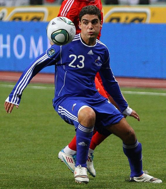 Alexandre Martínez with the Andorra national football team.